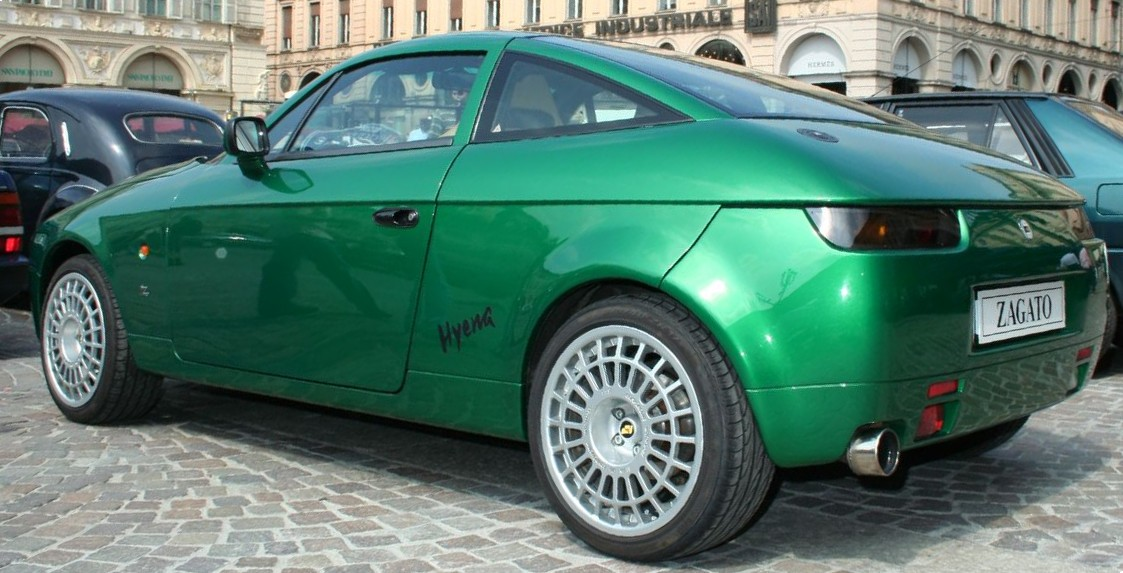 Lancia Hyena, 1993. Designed by Zagato.